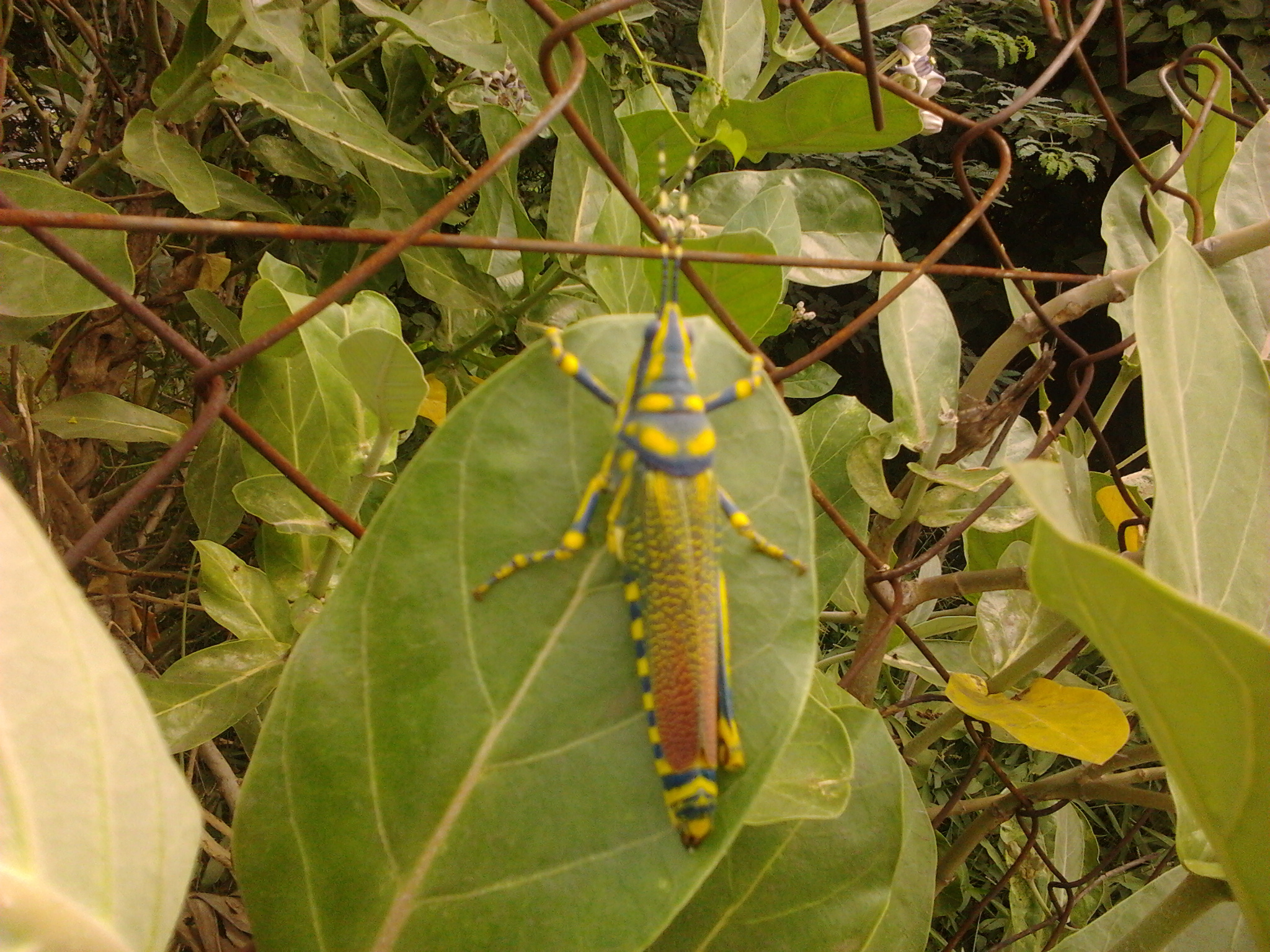 Photoed using Samsung Wave 525.